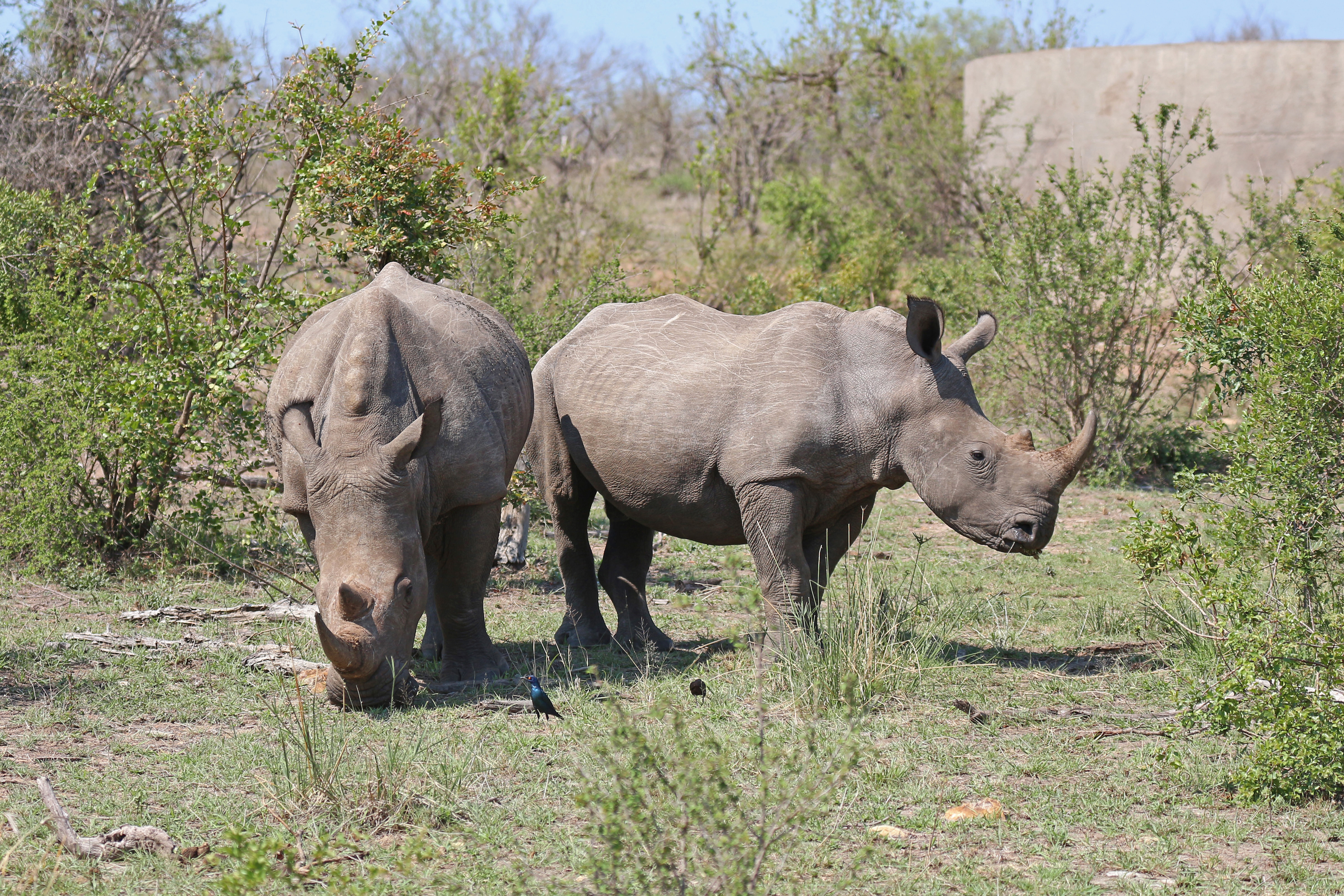 Southern white rhinoceros (Ceratotherium simum simum) in Kruger National Park, South Africa